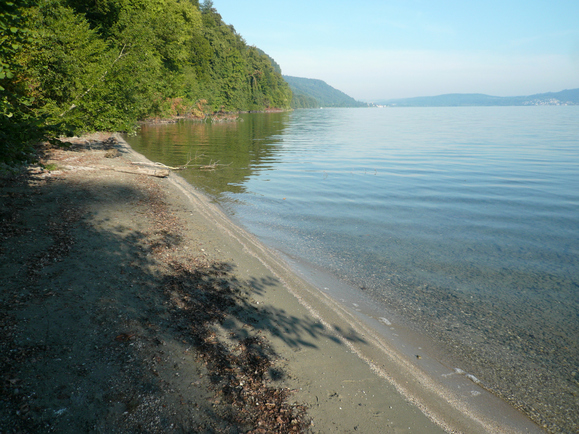 Beach of Lake Constanze